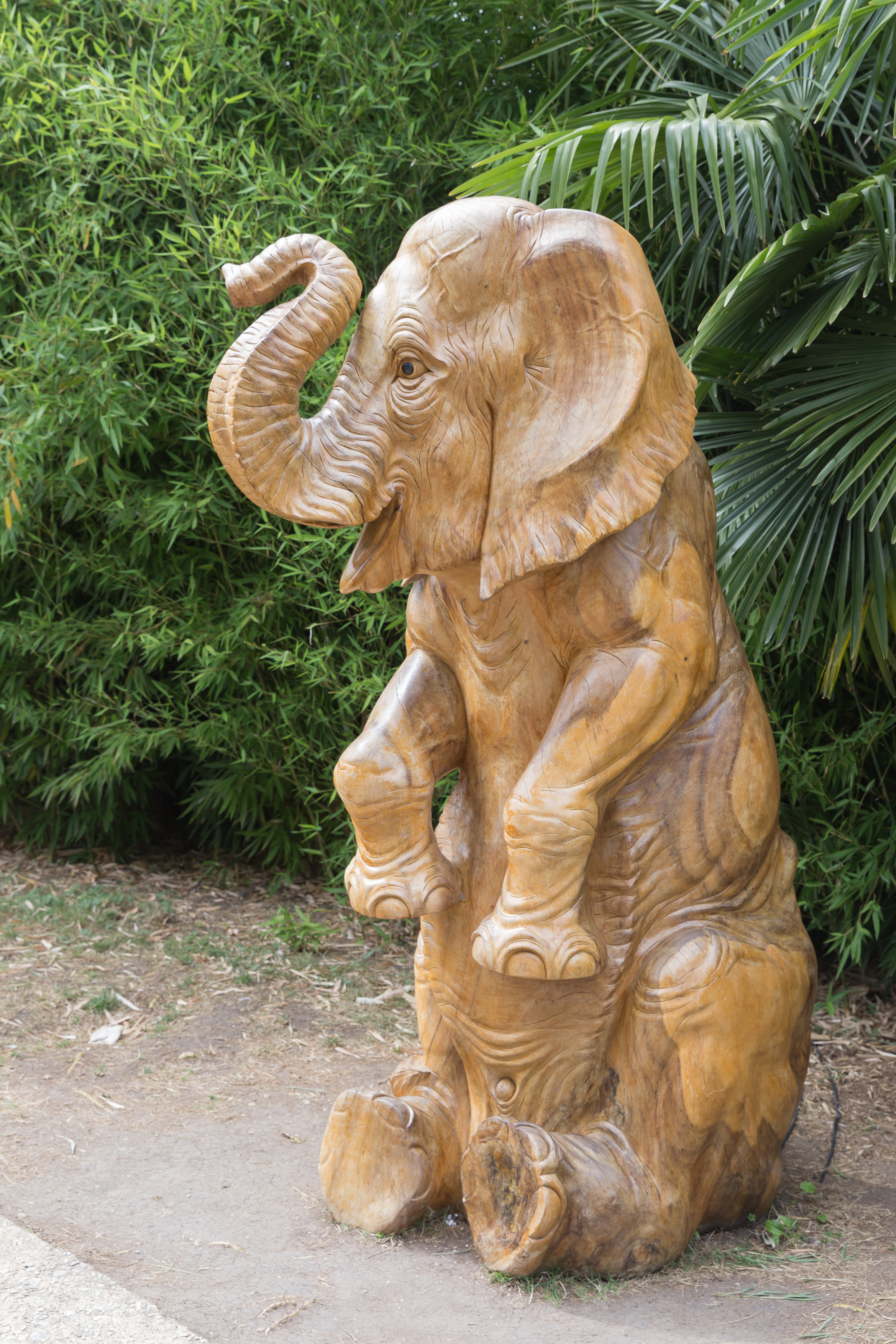 Wooden statue of elephant in the ZooParc de Beauval in Saint-Aignan-sur-Cher, France.